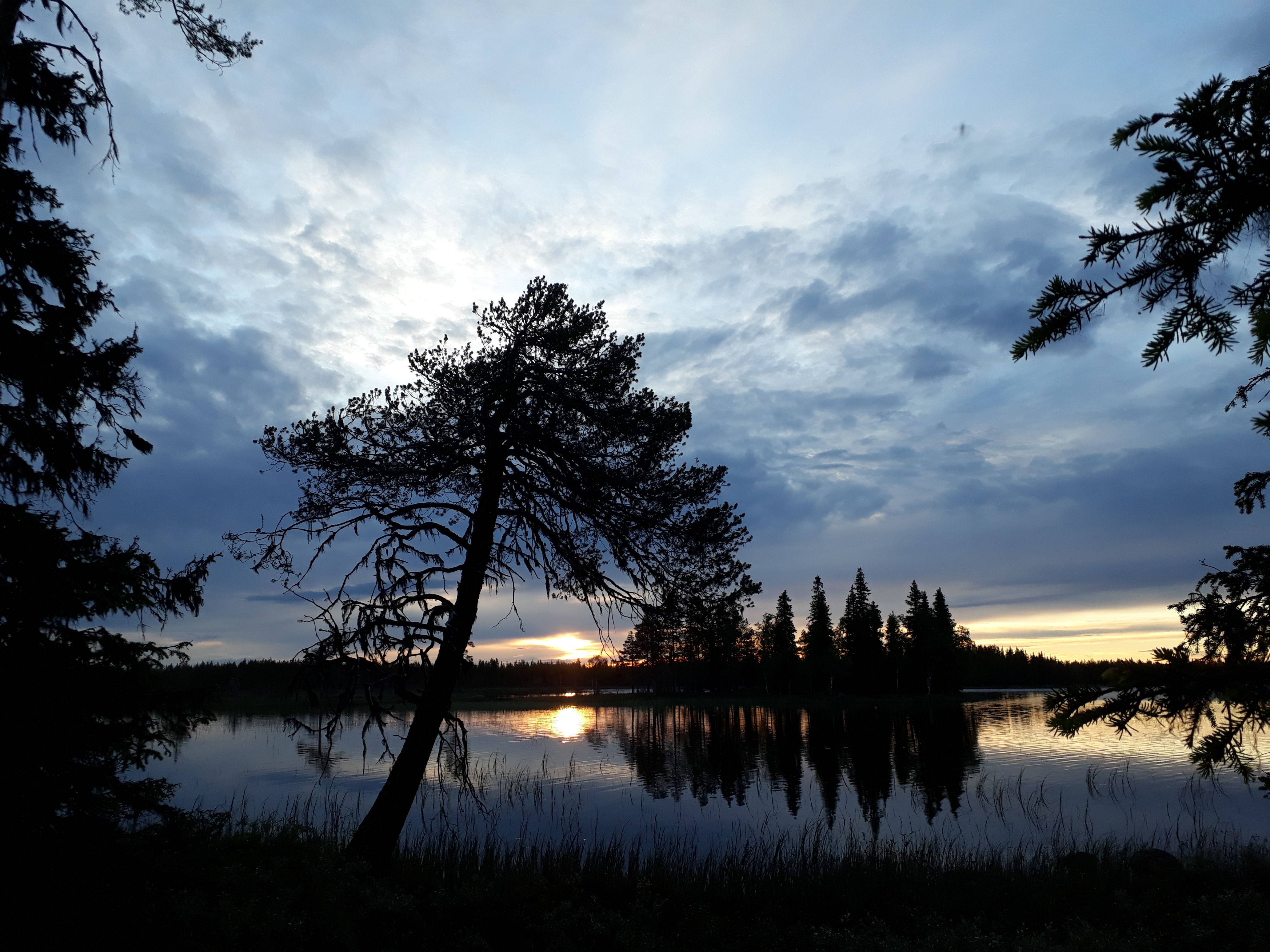 Seasonal flooding in spring around the forest streams and lakes of Reivo nature reserve, about 20 km north of Arvidsjaur, Norrbotten, Sweden